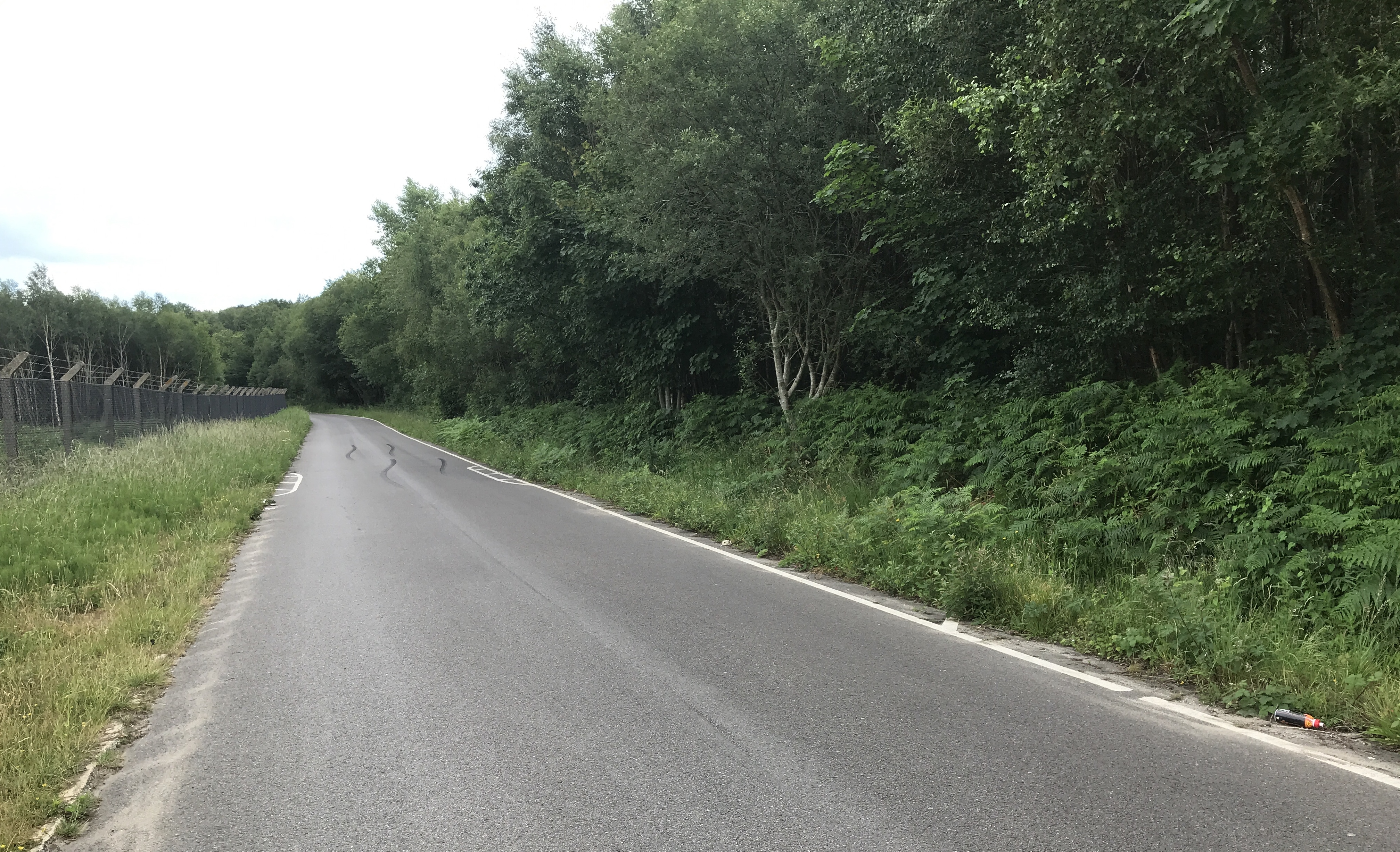 Laffans Road in Aldershot In 2020 - site of the murder of Marion Crofts in 1981